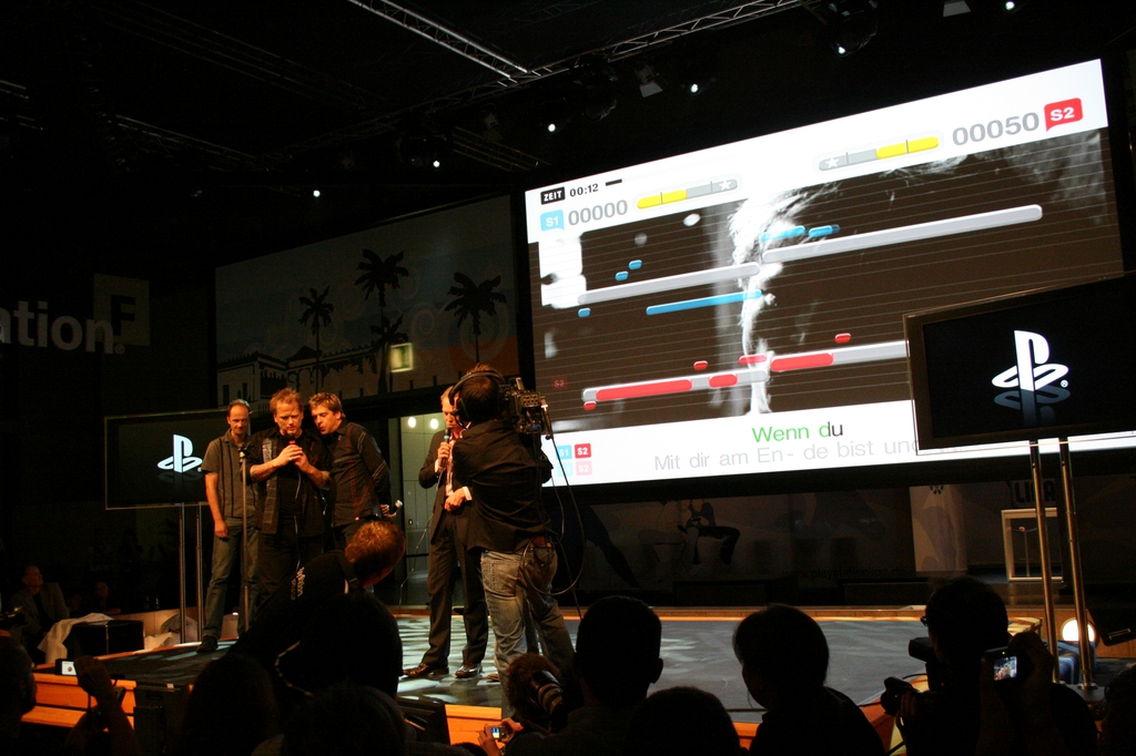 The second player seems to be much more better!